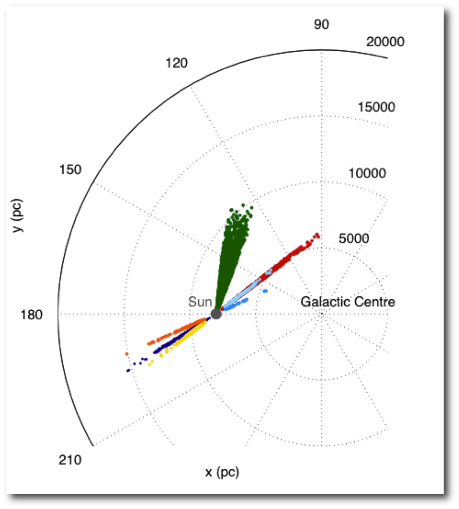 3D map of our Galaxy built from seismic data of red giants observed by CoRoT. From the work of A. Miglio et al.